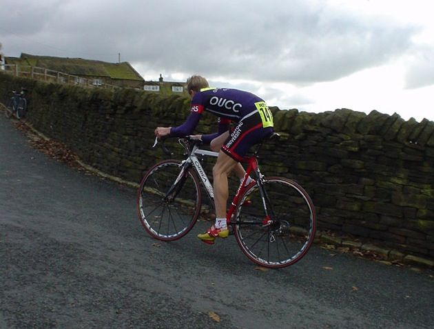 Danny Axford on his way to another BUSA Hillclimb victory